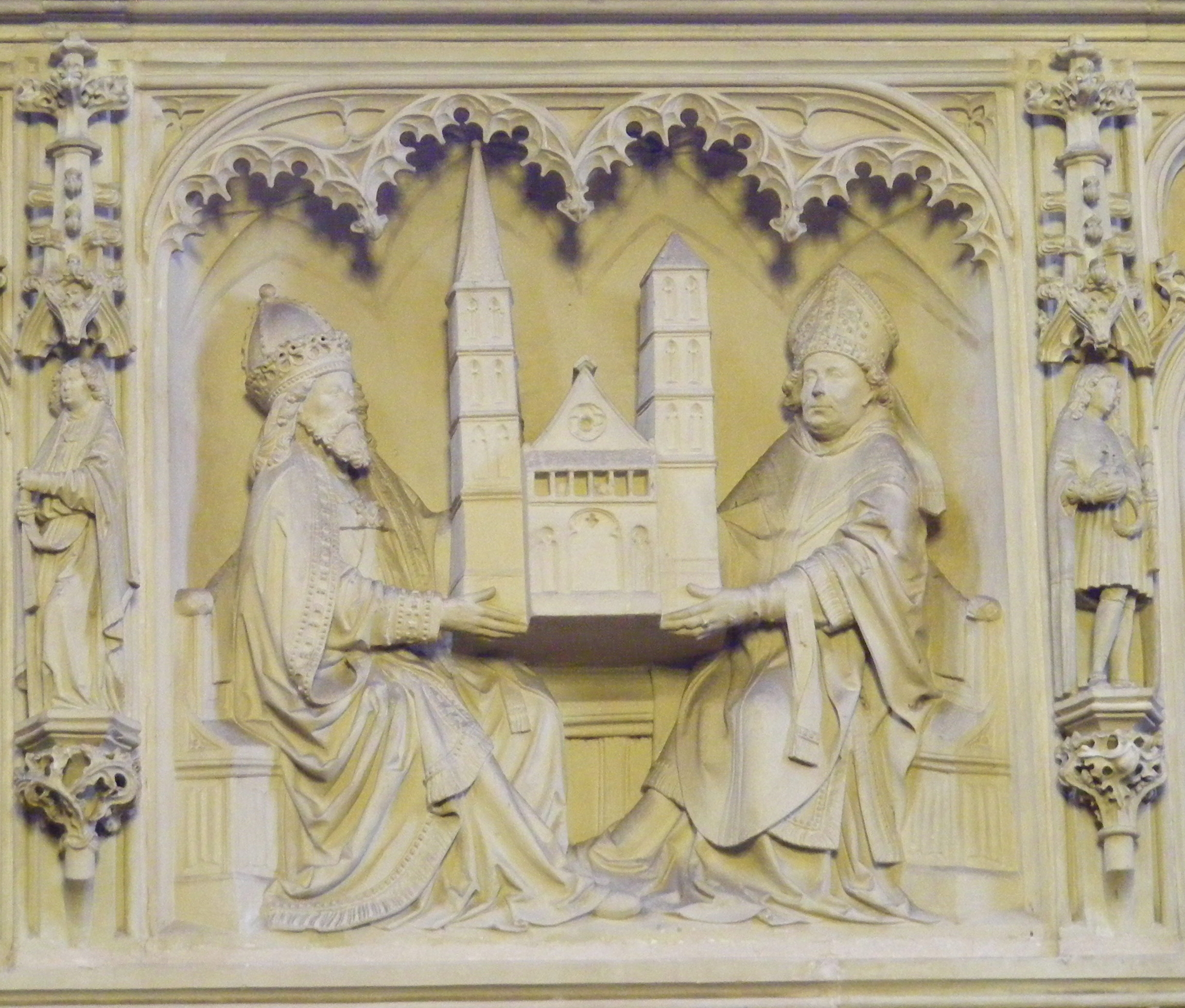 Bremen Cathedral, Charlemagne, bishop Wilhad and a model of the cathedral in the belt of reliefs that originally had been part of the western rood screen of 1512